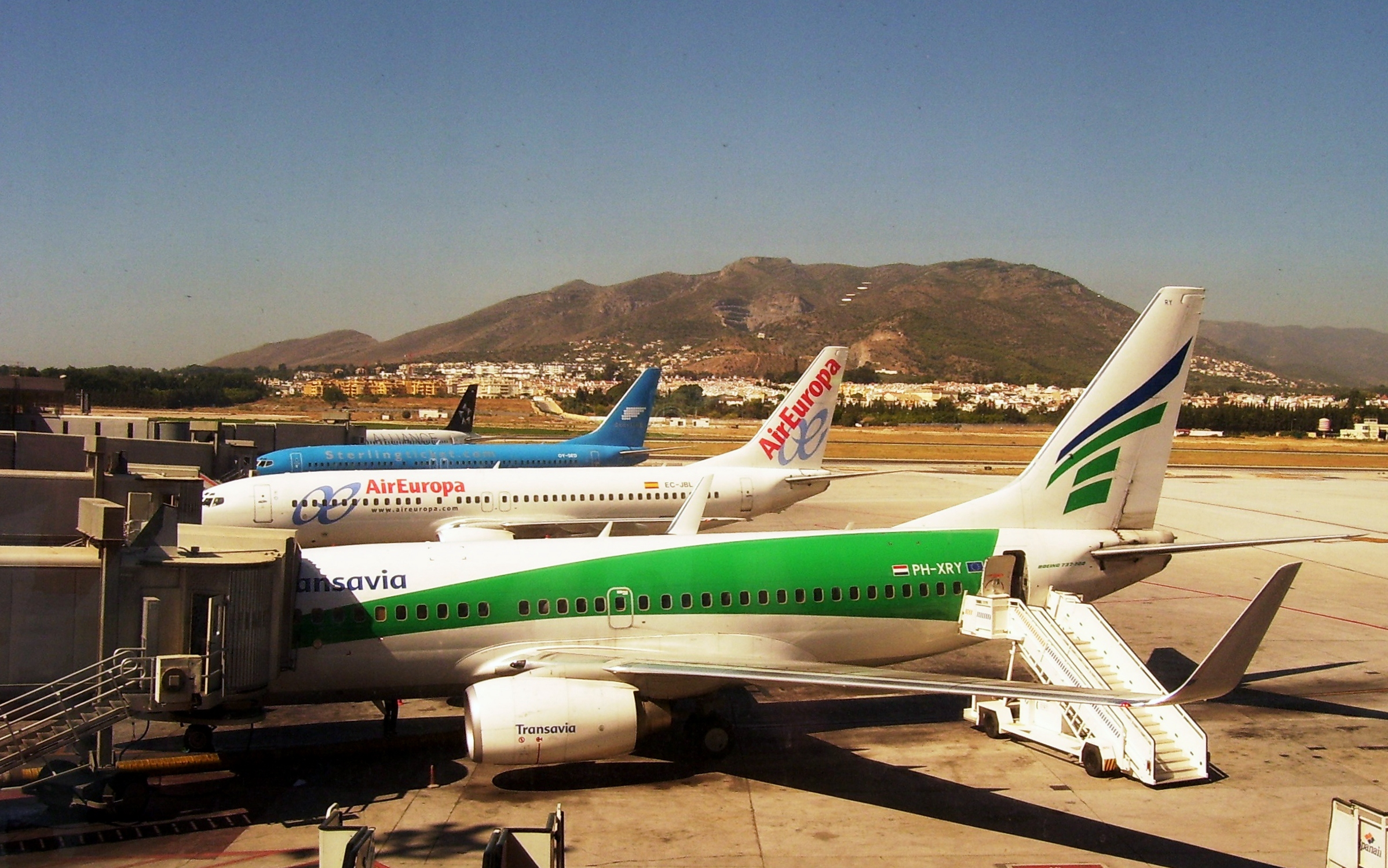 View of the main apron at Malaga Airport, showing various aircraft parked up at the stands, including Transavia and Air Europa Boeing 737s